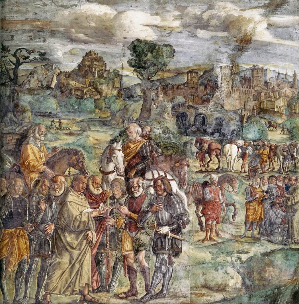 Giovanni Antonio Requesta Conversion of the Tyrant Ezzelino 1510-11 Fresco Sala Capitolare, Scuola del Santo, Padua